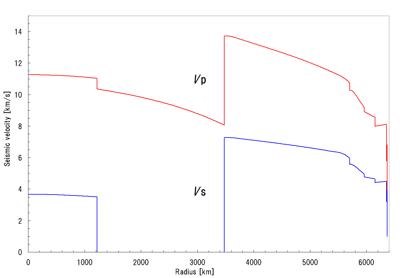 Earth's radial seismic velocity distribution